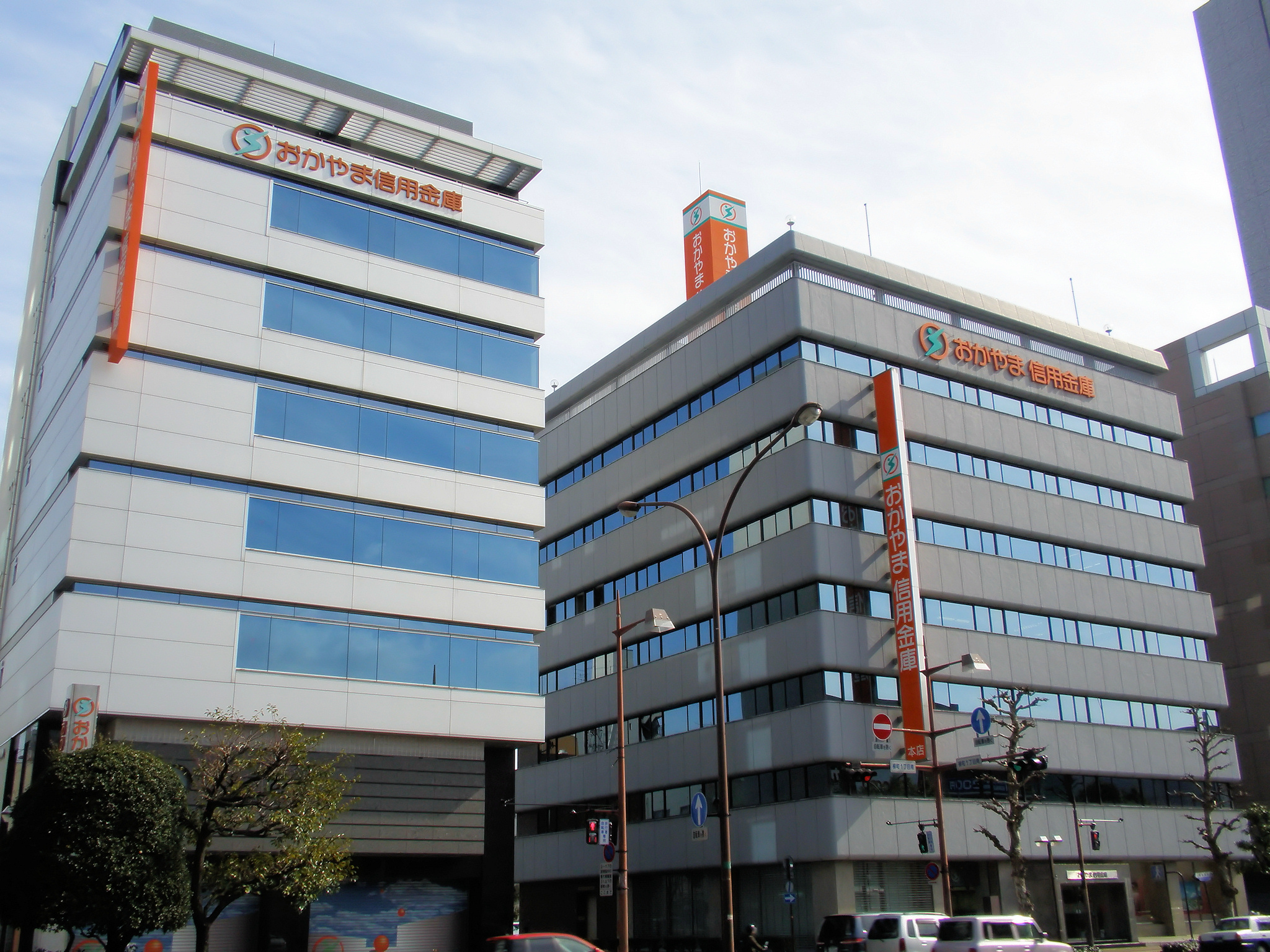 Okayama Shinkin Bank head store